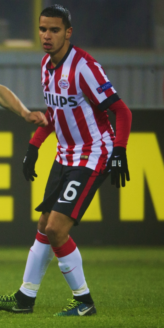 Adam Maher